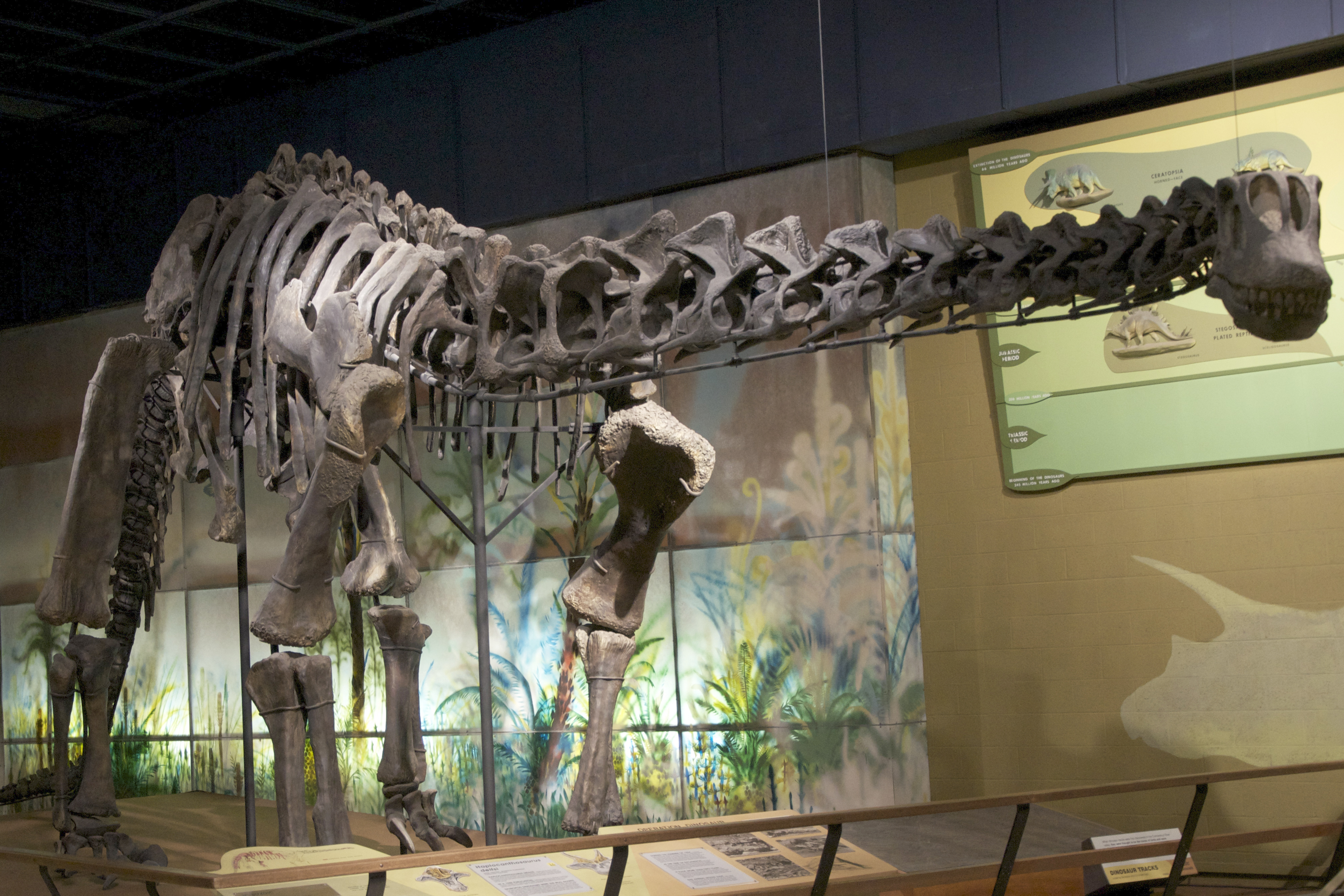 Haplocanthosaurus skeletal mount at the Cleveland Museum of Natural History